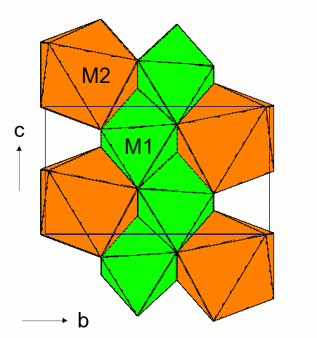 Pyroxene structure: Band of M1 and M2 octahedra running parallel to the c-axis